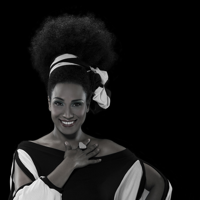 Aymee Nuviola Cover